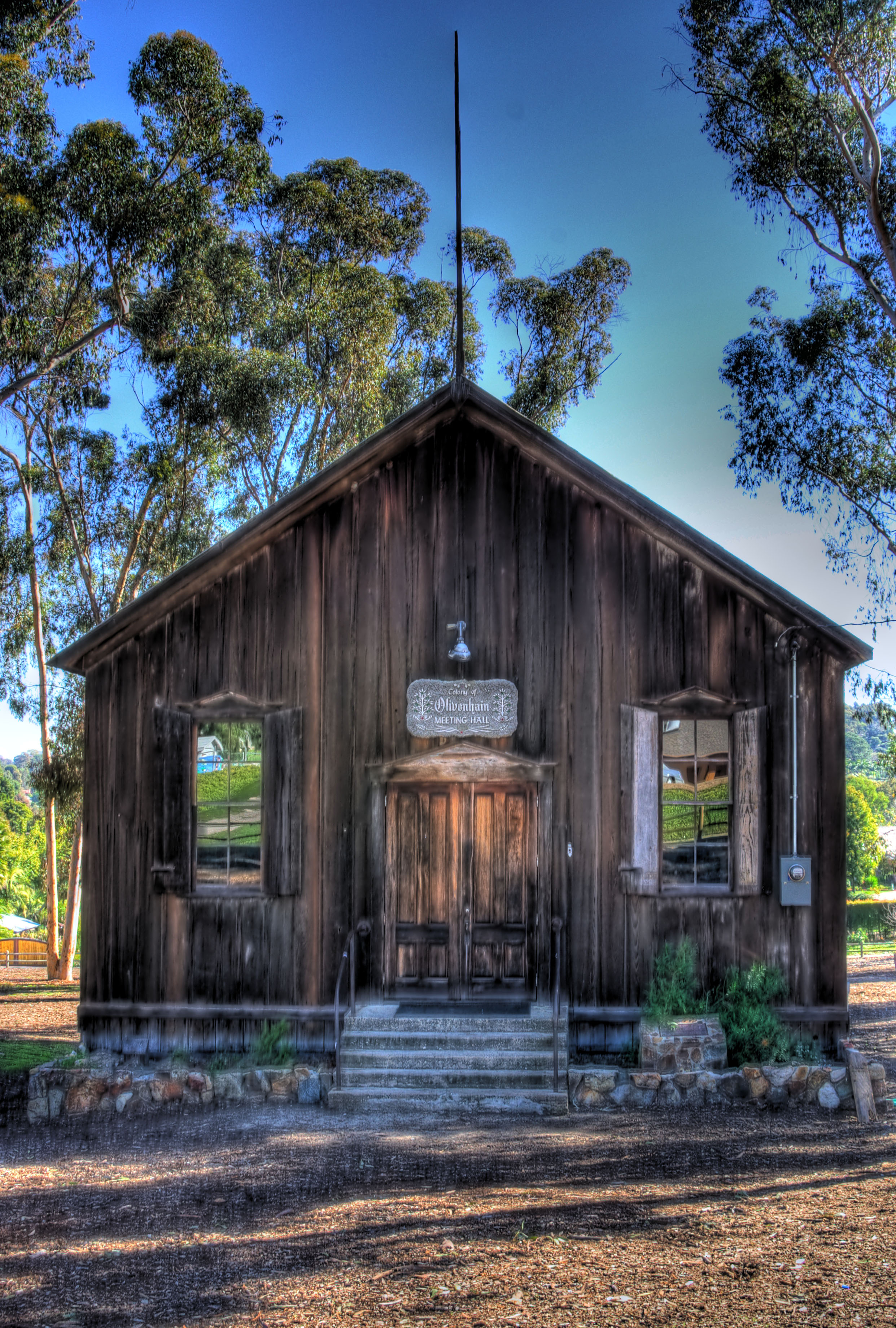 Front facade of the Olivenhain Meeting Hall — in San Diego County, California.